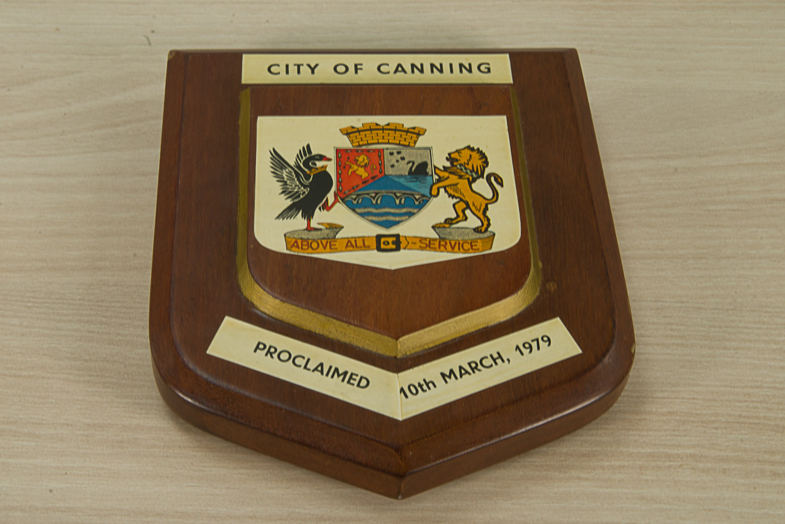 proclamation plaque City of Canning on public display at Riverton Library